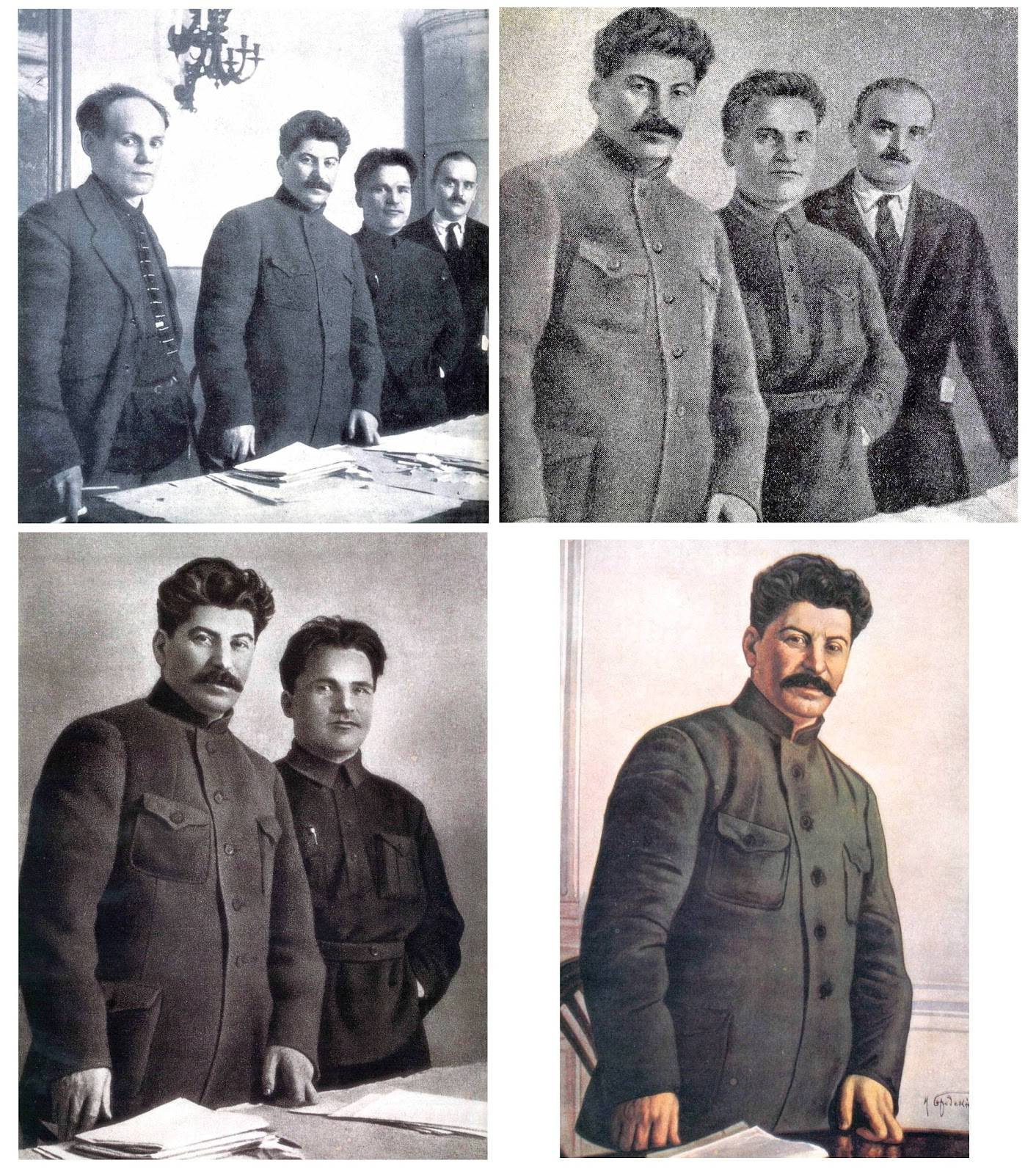 The original picture, left to right Nikolai Antipov (formerly the People's Commissar for Posts and Telegraphs of the USSR), Joseph Stalin, Sergei Kirov, and Nikolai Shvernik. Picture shows how after time each of the Stalin's comrades from the original shot was removed as they fell out of favor. All pictures fall under Public Domain as they were published before January 1, 1954. Works belonging to the former Soviet government or other Soviet legal entities published before January 1st, 1954, are public domain in Russia. Image is based a book cover but copyrighted material has been taken out.